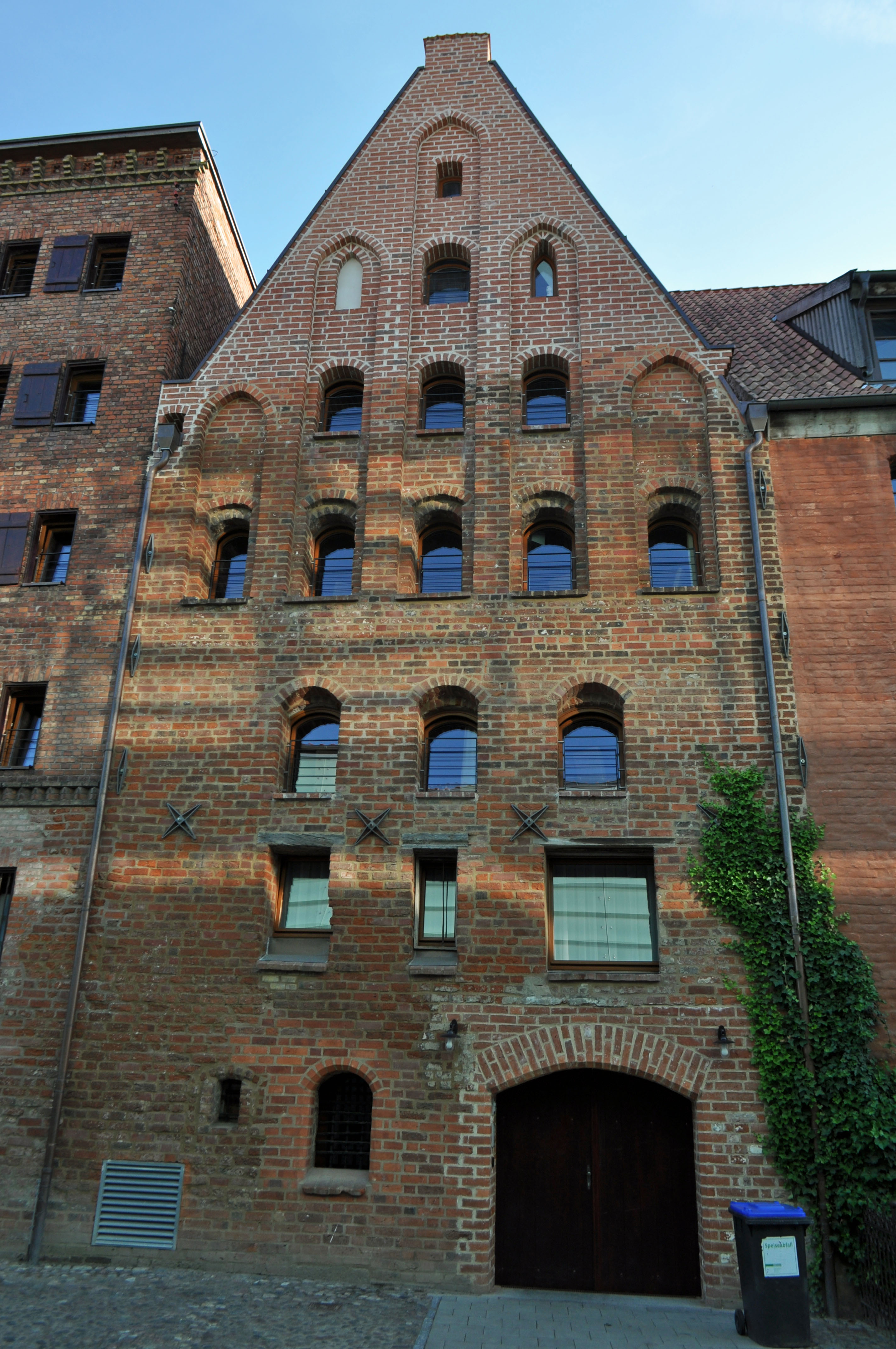 Stralsund, Fährwall 5 This is a photograph of an architectural monument.